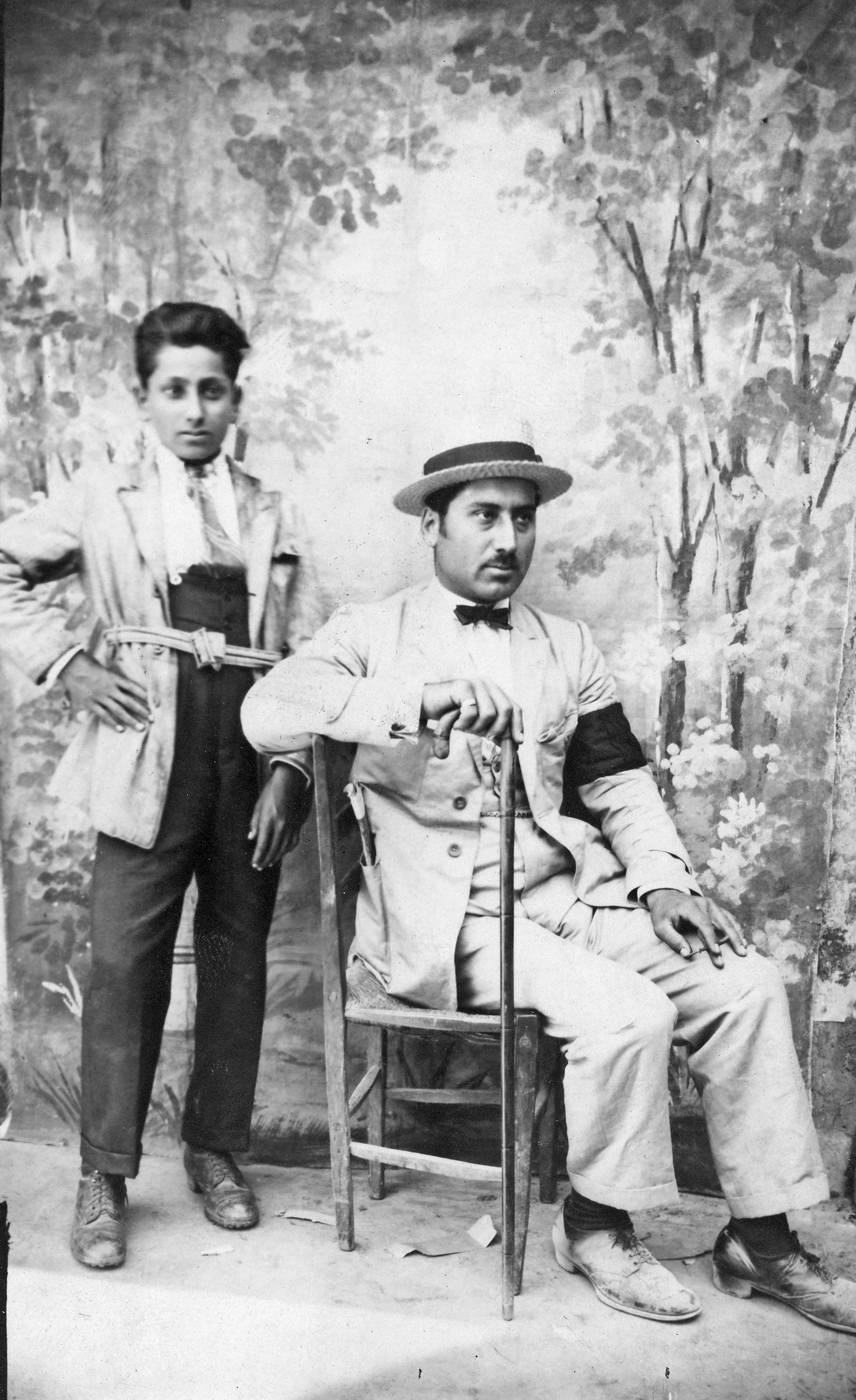 DeGrazia (left) and his Uncle Gregorio circa 1920's